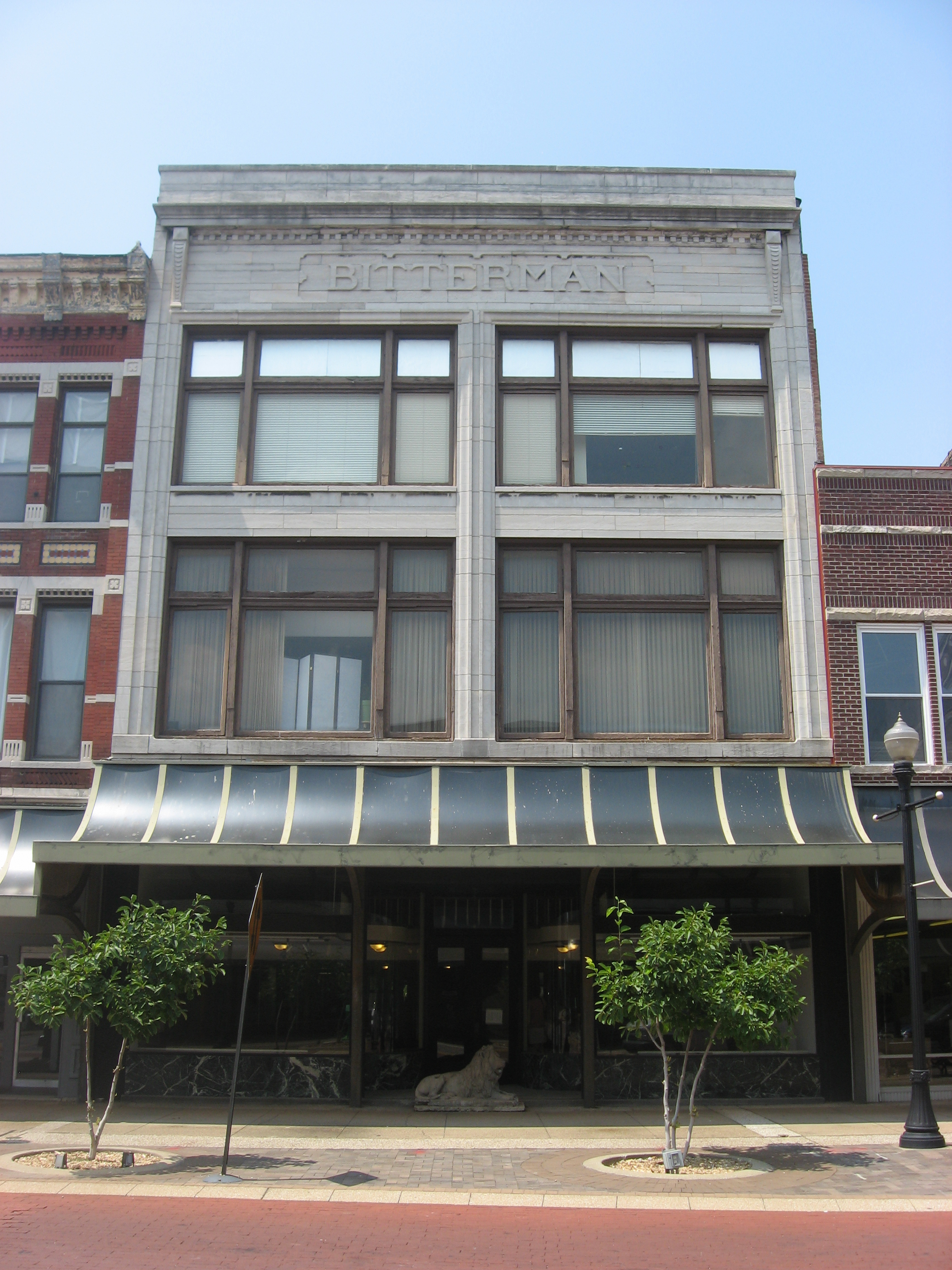 Front of the Bitterman Building, located at 202-204 Main Street in Evansville, Indiana, United States. Built in 1923, it is listed on the National Register of Historic Places.